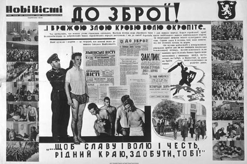 Appeal poster from SS Galicia newspaper